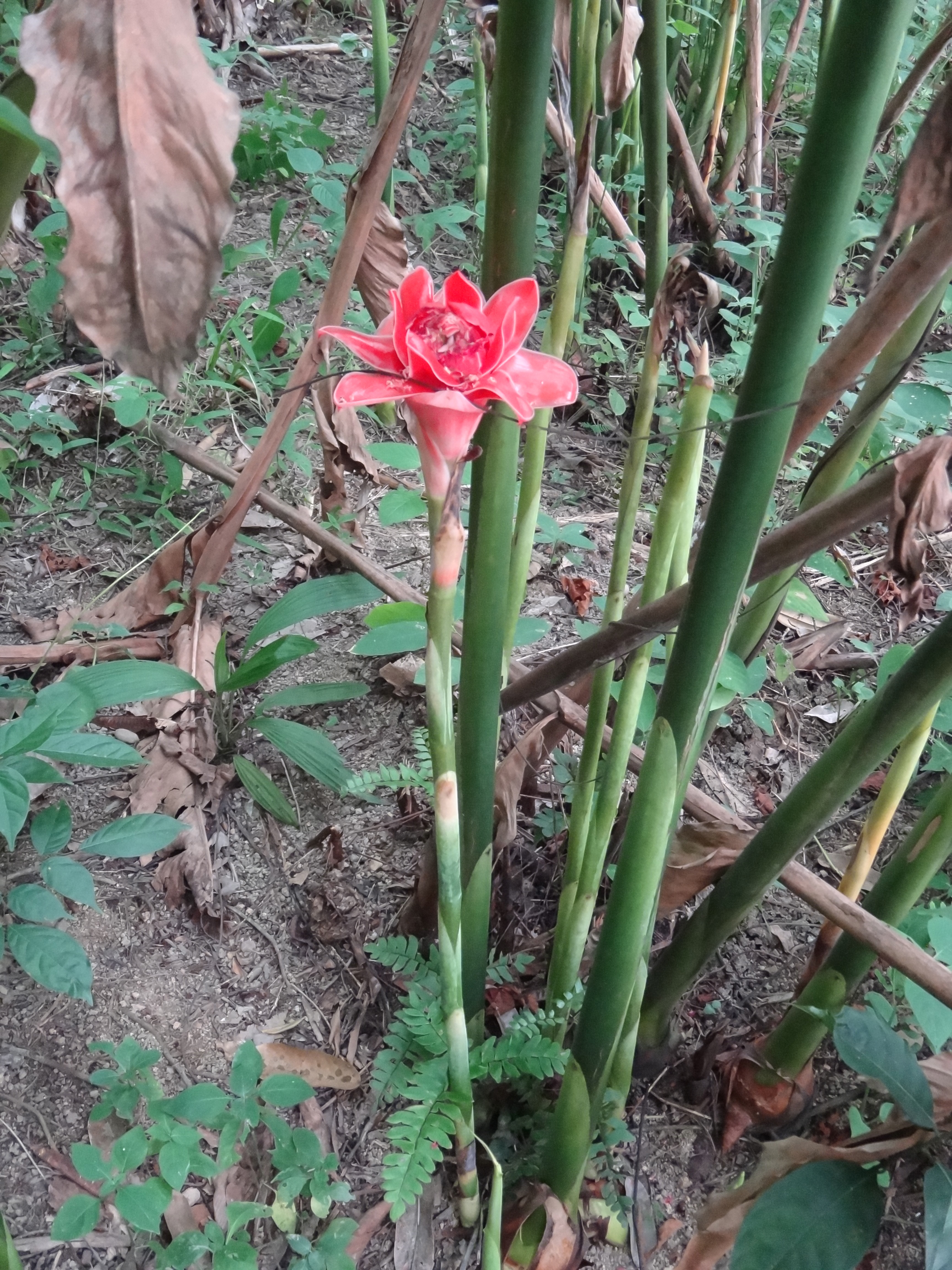 This is a photograph of Etlingera elatior in full-bloom together with its stalk.